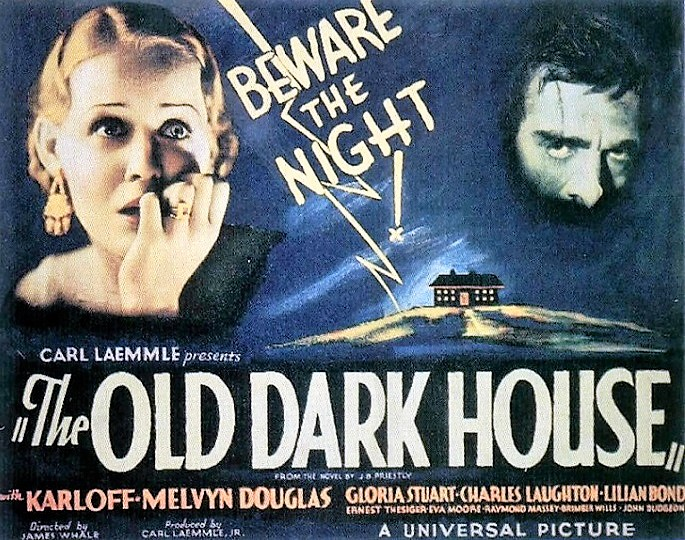 Poster del film The Old Dark House (1932).